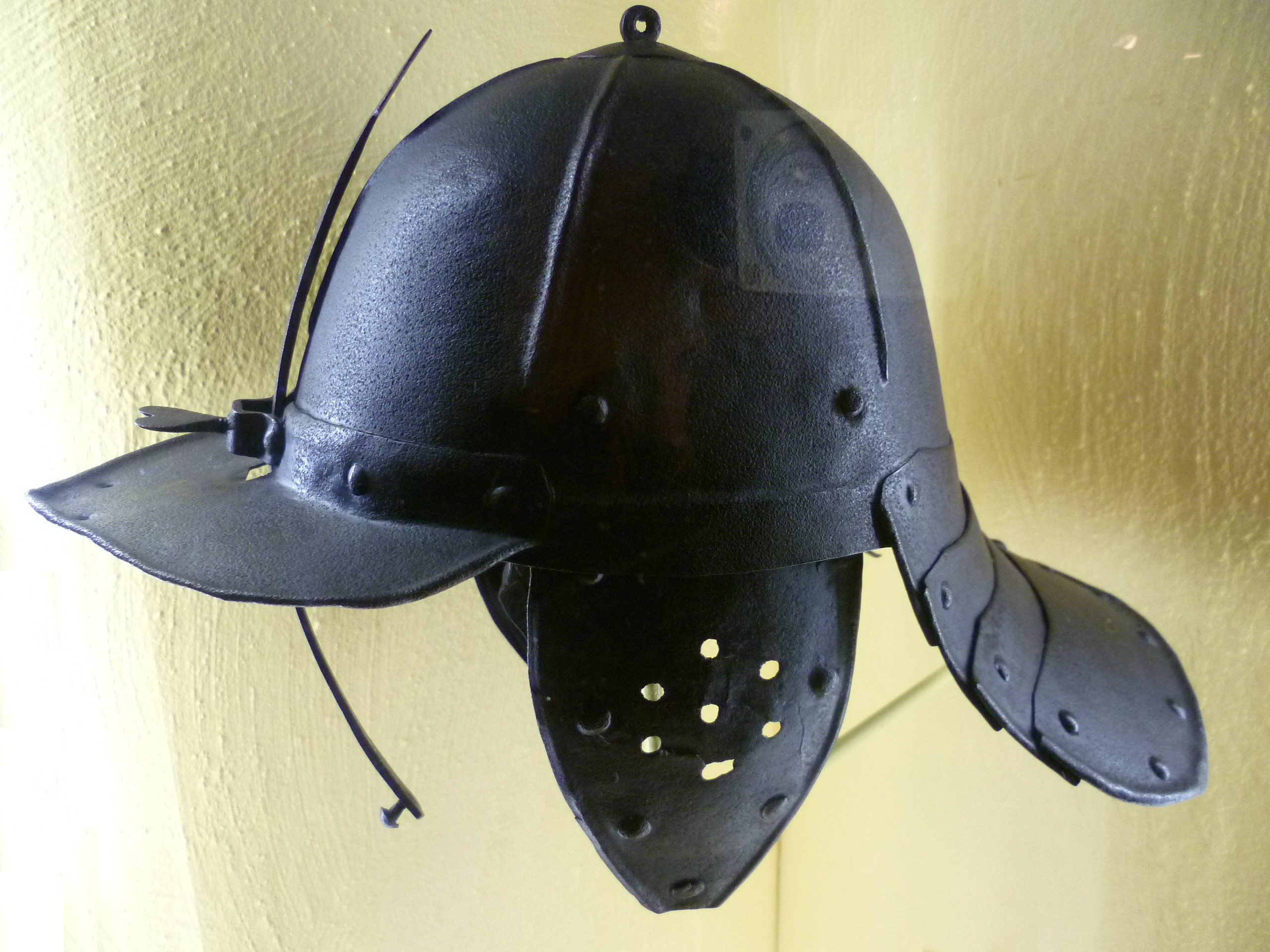 Lobster pot helmet from the period of the British civil wars in the 17th century. Although it was worn by a Scottish Covenanter, the design is German, suggesting that the wearer acquired it during the religious wars in Germany. An exhibit in the Huntly House Museum, Edinburgh.